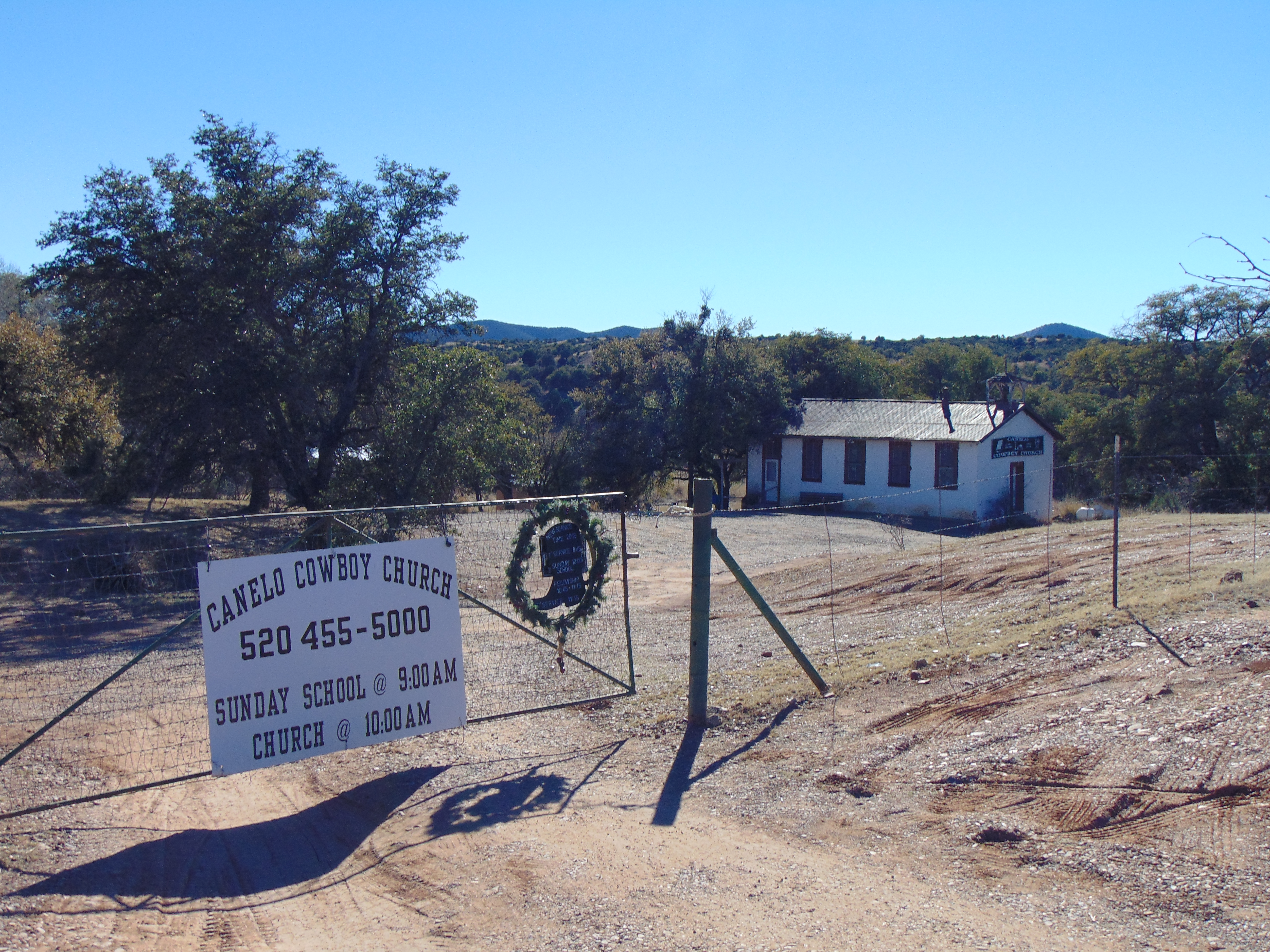 The one-room Canelo School building in Canelo Arizona. It was built in 1912 and is now occupied by the Canelo Cowboy Church.